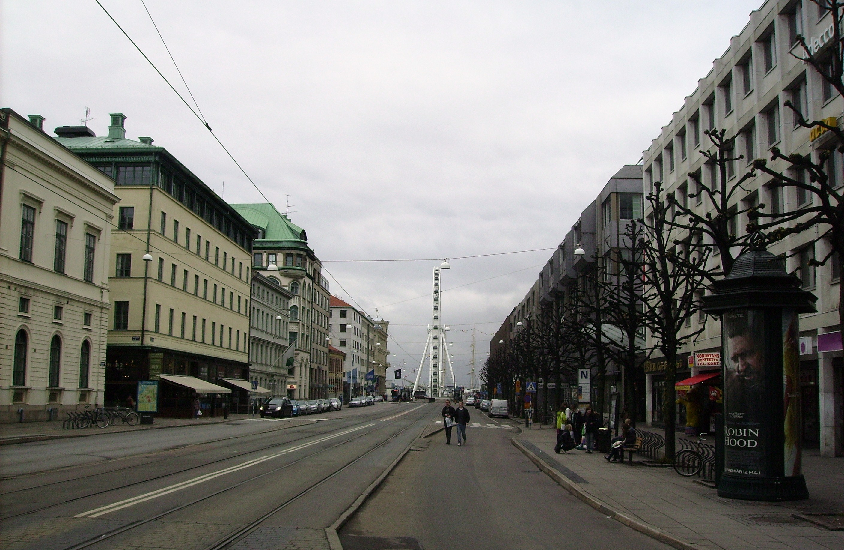 Picture of Östra Hamngatan in Göteborg